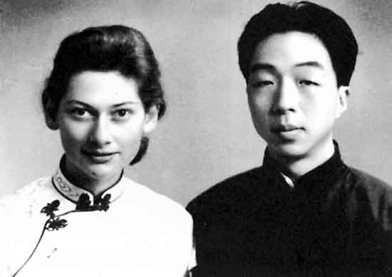 Yang Xianyi and Gladys Taylor,taken in1941 in Chongoing